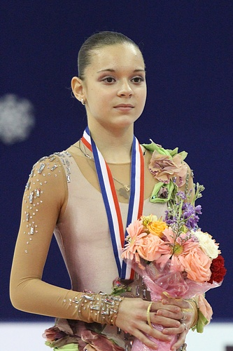 Adelina Sotniкova at the Cup of China 2011